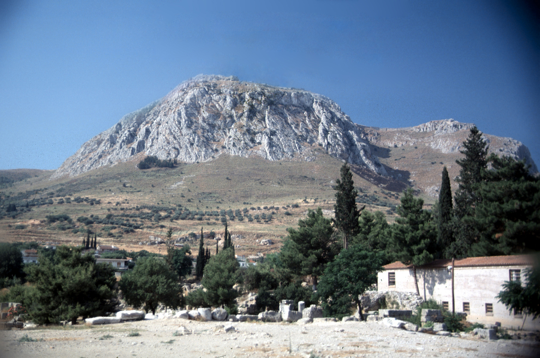 Distant view of Acrocorinth, the acropolis of Ancient Corinth, seen from the excavation area near the temple of Apollo. The building of the Archaological Museum is on the right.